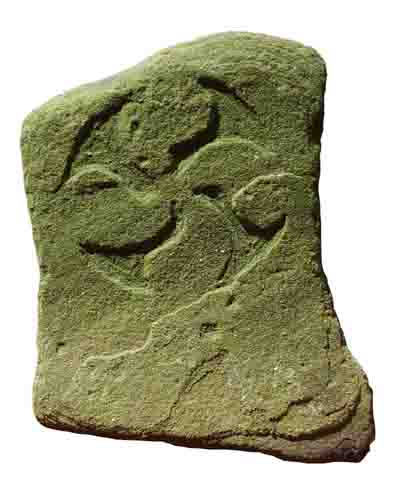 Lauburu (Basque cross) carved in stone, Basque Country